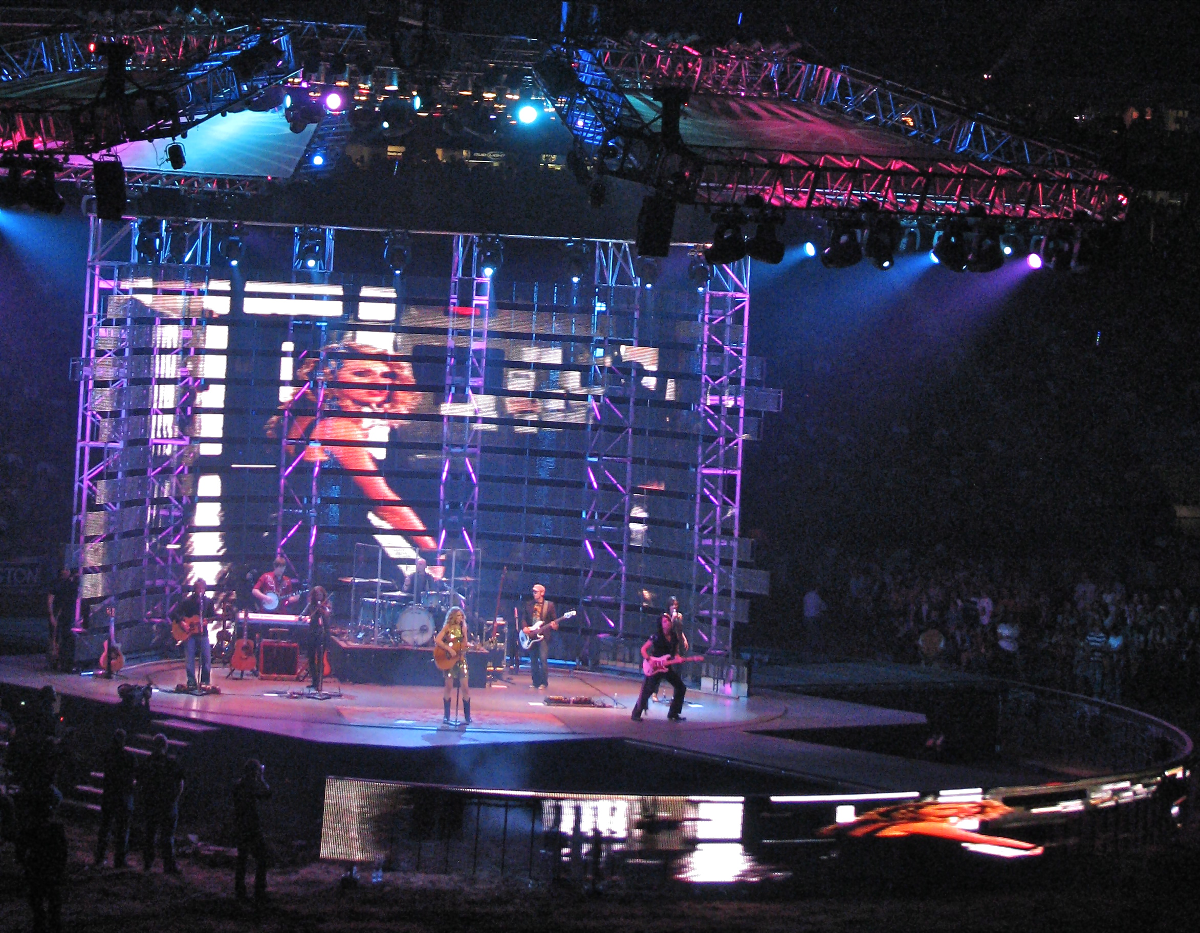 Taylor Swift during her concert at the Houston Rodeo.